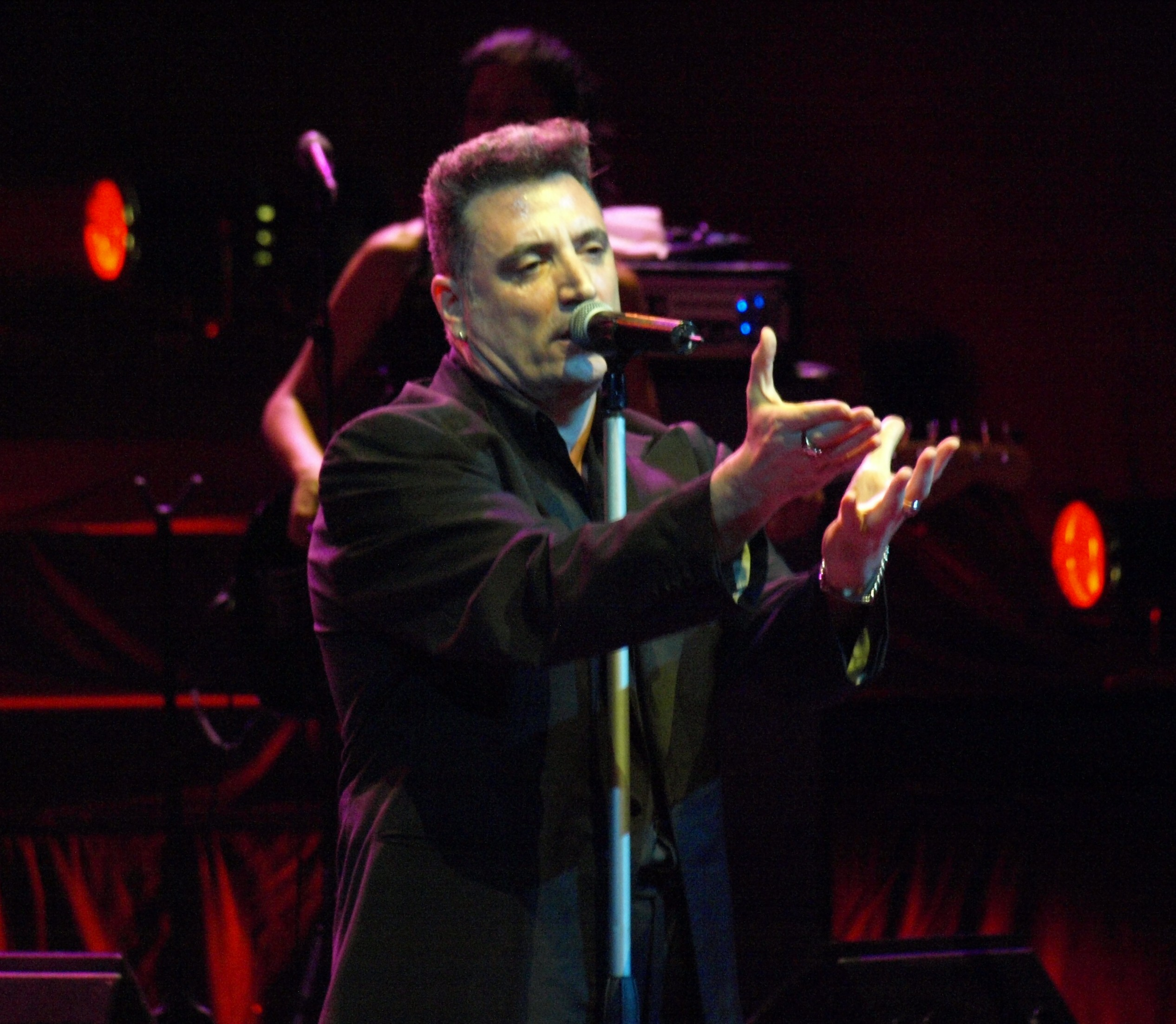 The spanish singer Loquillo in a Concert in Barcelona (Sept 2008).